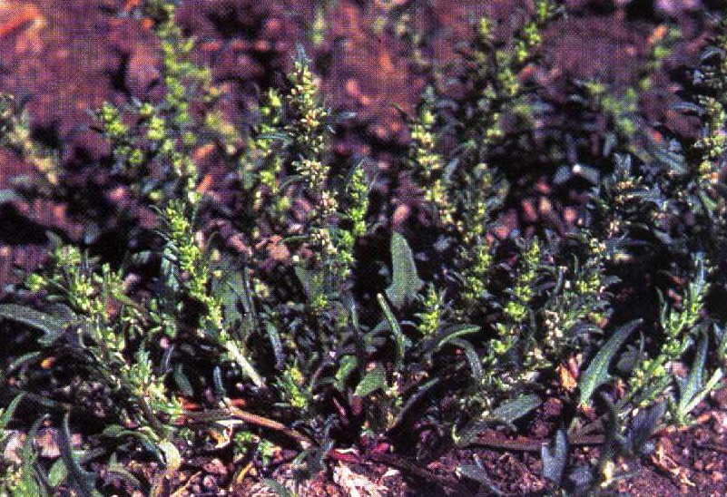 Monolepis nuttalliana from Joe F. Duft. USDA NRCS. 1992. Western wetland flora: Field office guide to plant species. West Region, Sacramento. Courtesy of USDA NRCS Wetland Science Institute.